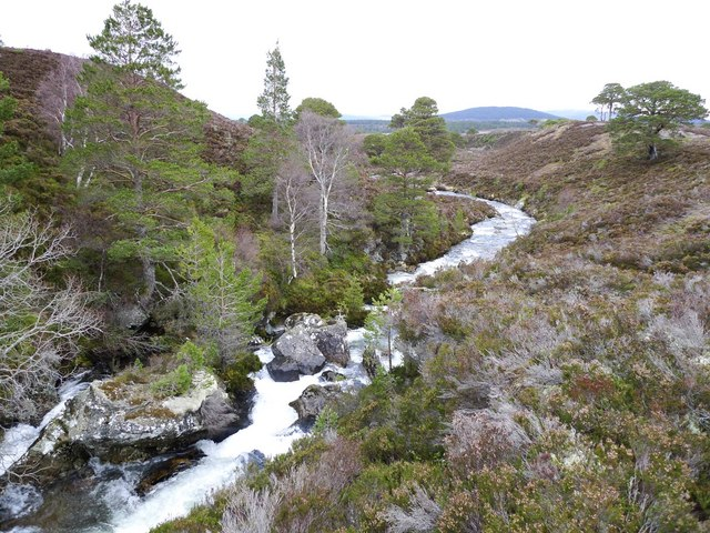 Gorge and River Nethy Getting no indication of its presence on digital versions of the 1:25000 mapping and only the meanest possible crag type squiggles on printed maps this gorge is, in fact, quite impressive and has interesting rock formations and trees.